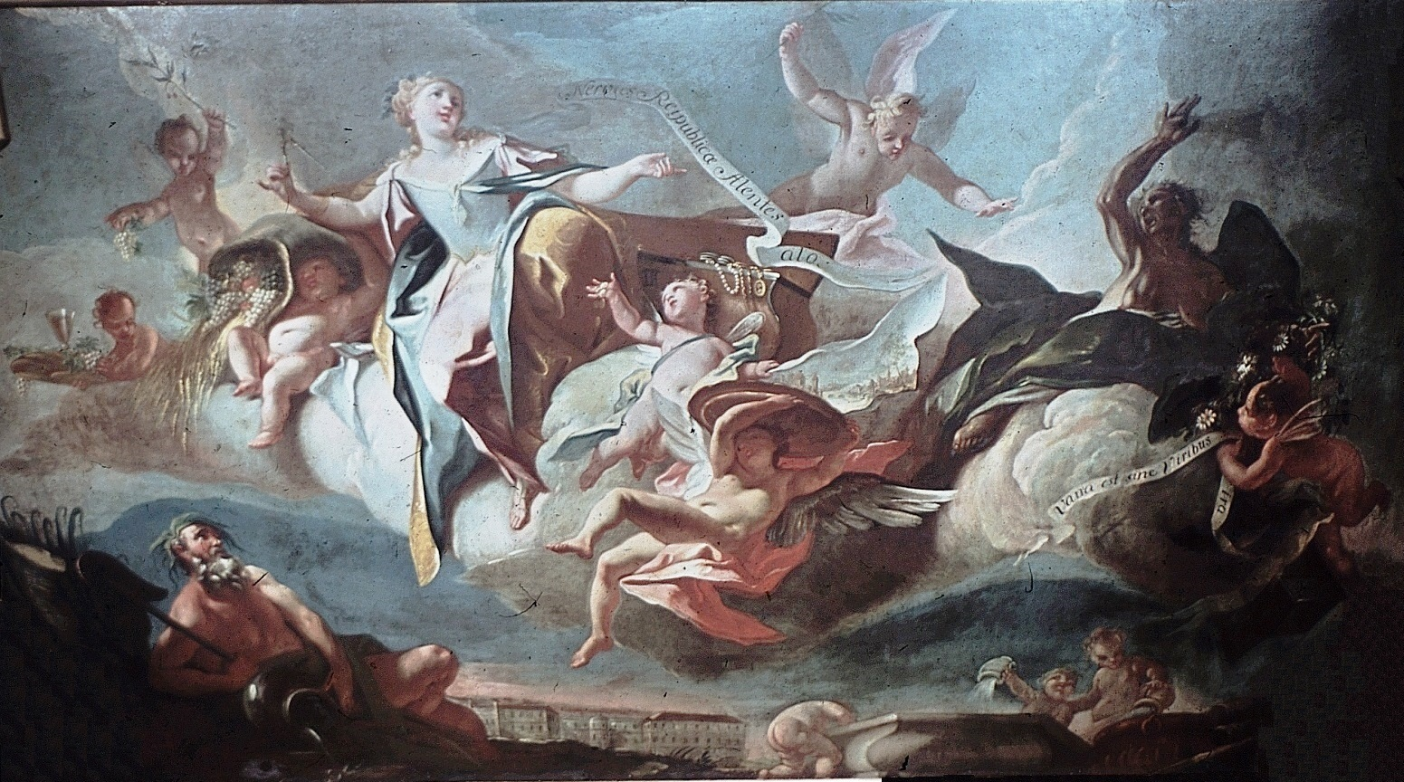 Schwäbisch_Hall,_Rathaus,_Deckengemälde_im_Stättmeistersaal_"Allegorie_der_Stadt_Hall_und_ihres_Wohlstandes" .jpg